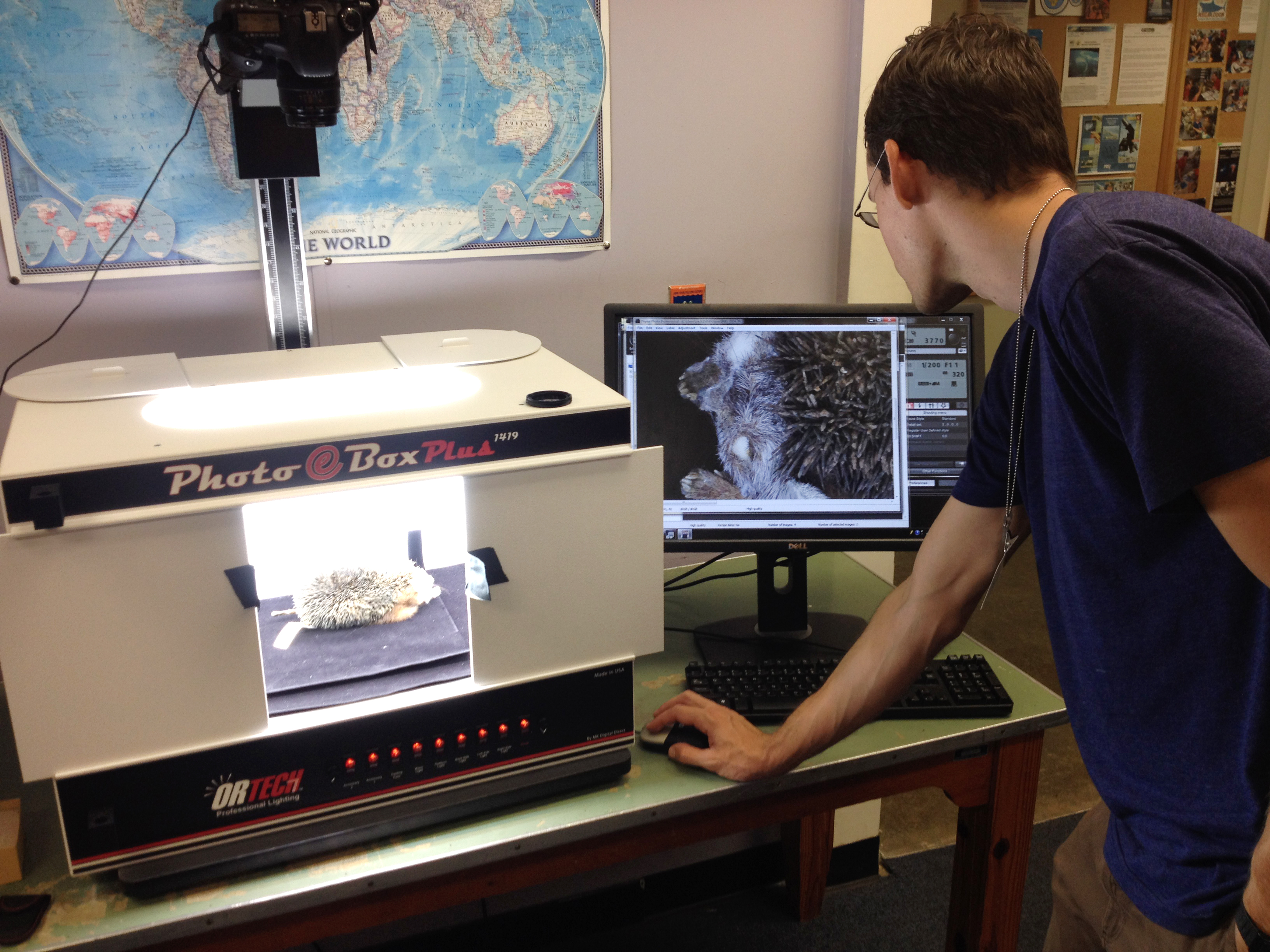 iDigBio Page photos